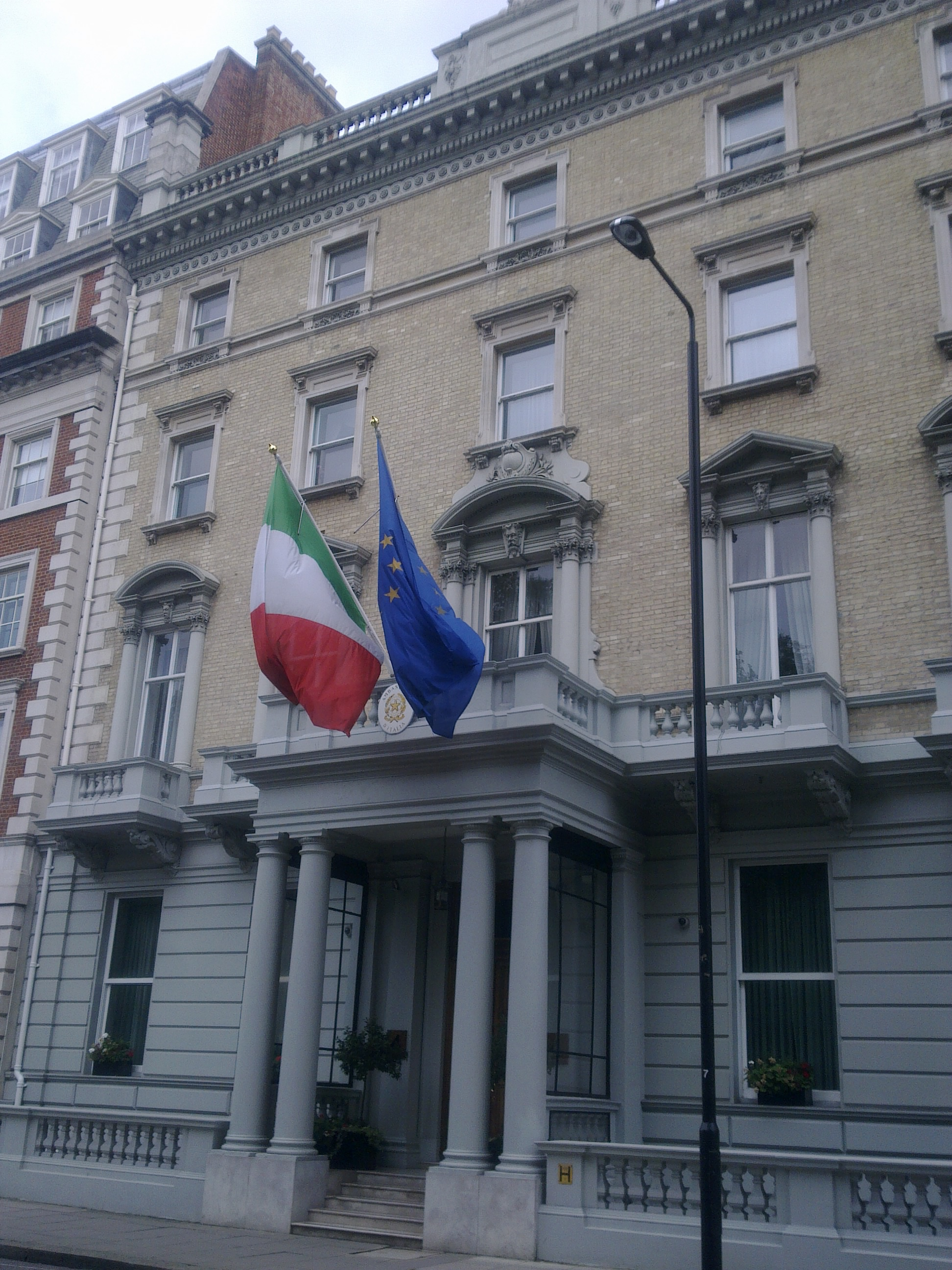 Embassy of Italy in London 4